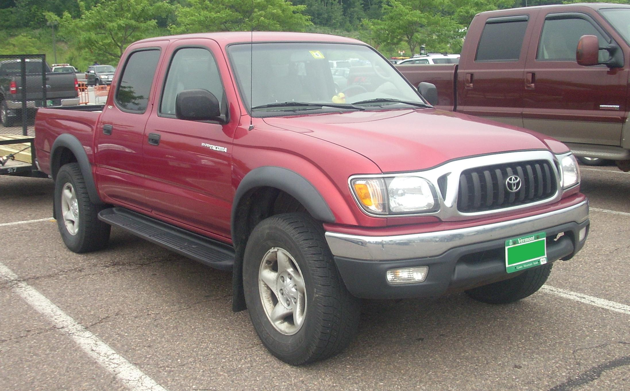 2001-2004 Toyota Tacoma photographed in Williston, Vermont, USA.